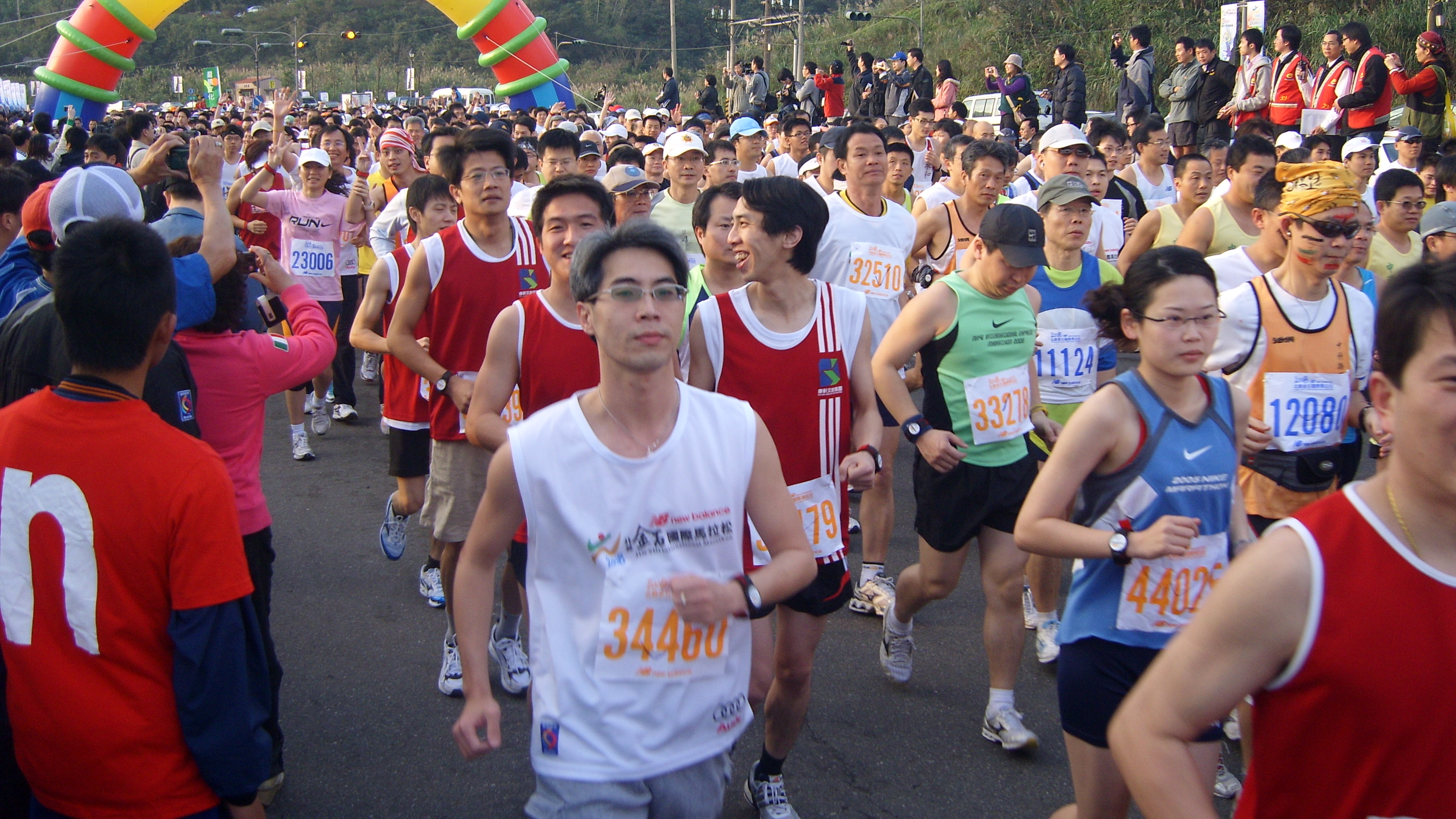 2008 Taipei County Jin Shi International Marathon: 42K & 21K classes.